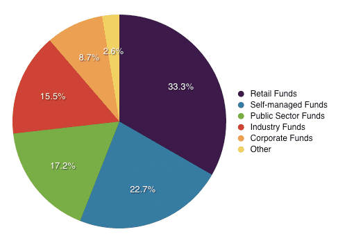 Australian Superannuation Industry. Share of superannuation assets. Data from APRA Graph made in Apple Pages.